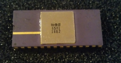 6581 in ceramic DIP